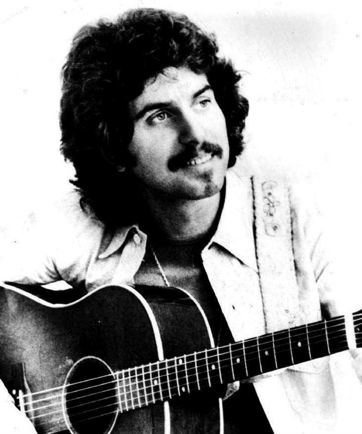 Photo of musician Johnny Rivers.